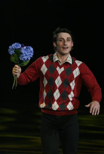 Brian Joubert(FRA) at the 2008 Trophée Eric Bompard exhibithion.